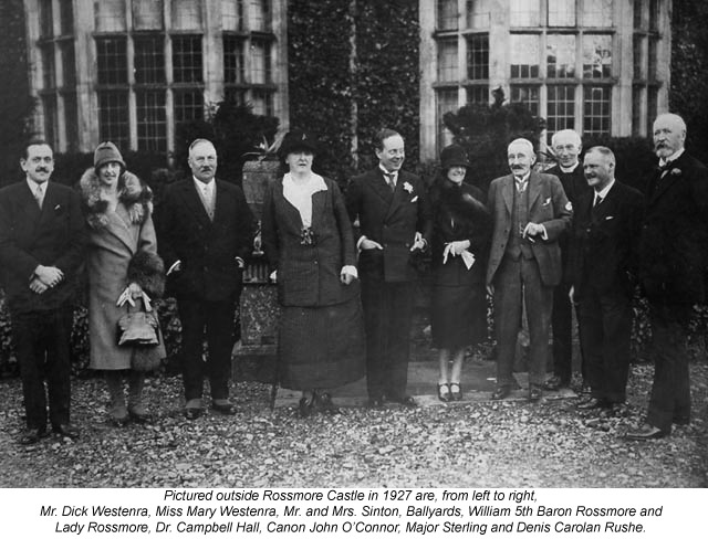 Maynard Sinton at the wedding of Lord Rossmore, outside Rossmore Castle